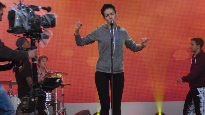 Frida Gold